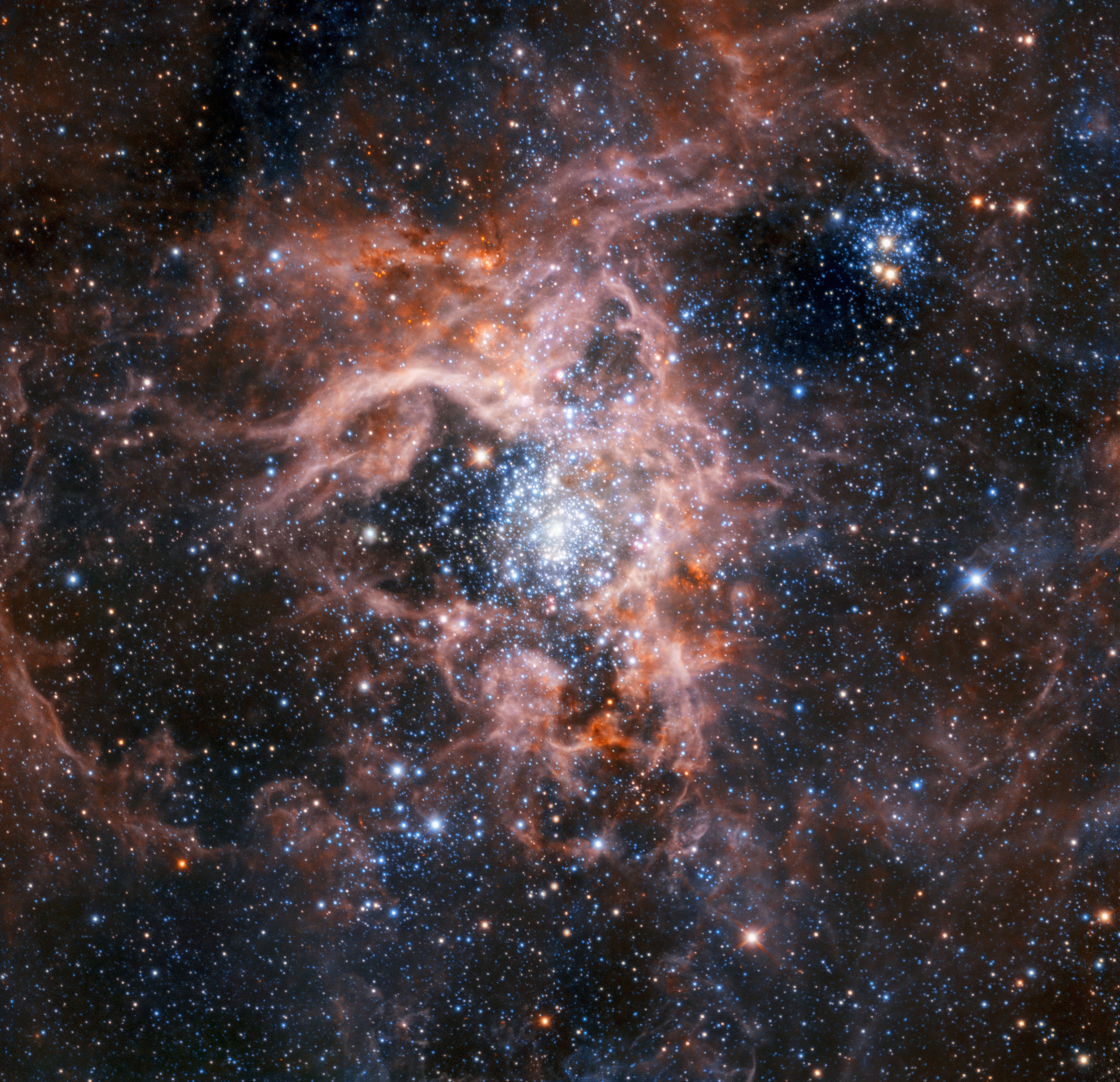 This image of the dramatic star formation region 30 Doradus, also known as the Tarantula Nebula, was created from a mosaic of images taken using the HAWK-I instrument working with the Adaptive optics Facility of ESO’s Very Large Telescope in Chile. The stars are significantly sharper than the same image without adaptive optics being used, and fainter stars can be seen.